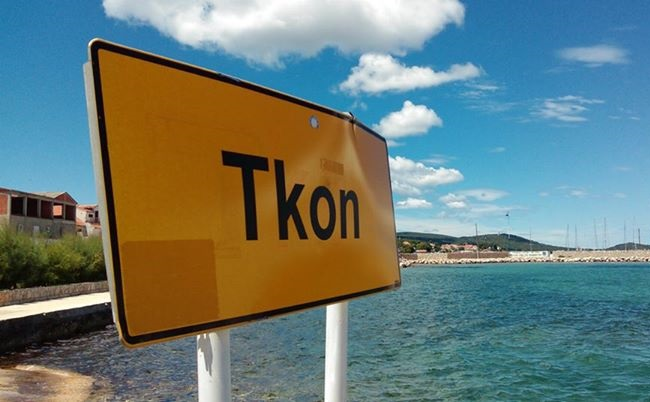 Sign at entrance to Tkon harbor. Tkon, Pašman, Croatia